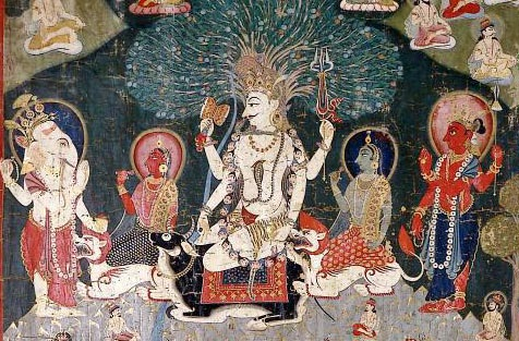 Siva and his Retinue Nepal 112 x 123.2 cm (44 1/8 x 48 1/2 in.) Watercolor and gold on cotton Type, sub-type: Watercolors The white-skinned Hindu god Shiva sits in his usual attire on his bull Nandi, accompanied by two goddesses -- one with red skin, the other with green skin -- both seated on lions. He is greeted by his sons, the elephant-headed Ganesh on the left and the red-skinned Skanda on the right. They are on the stylized rocks of Mt. Kailasa, and the river Ganga pours from Shiva's head and down the mountain.